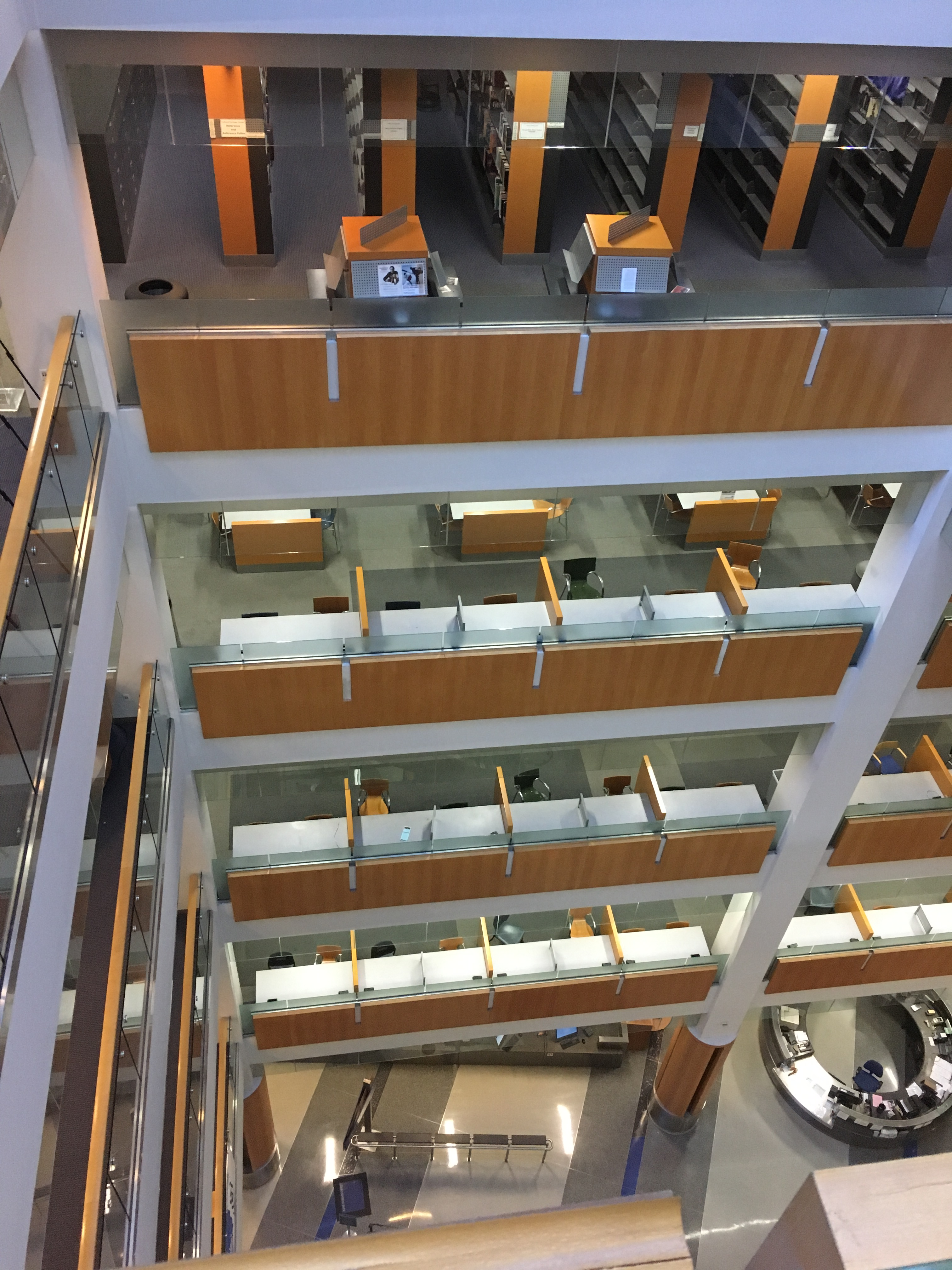 Dr. Martin Luther King, Jr. Library, San Jose, California